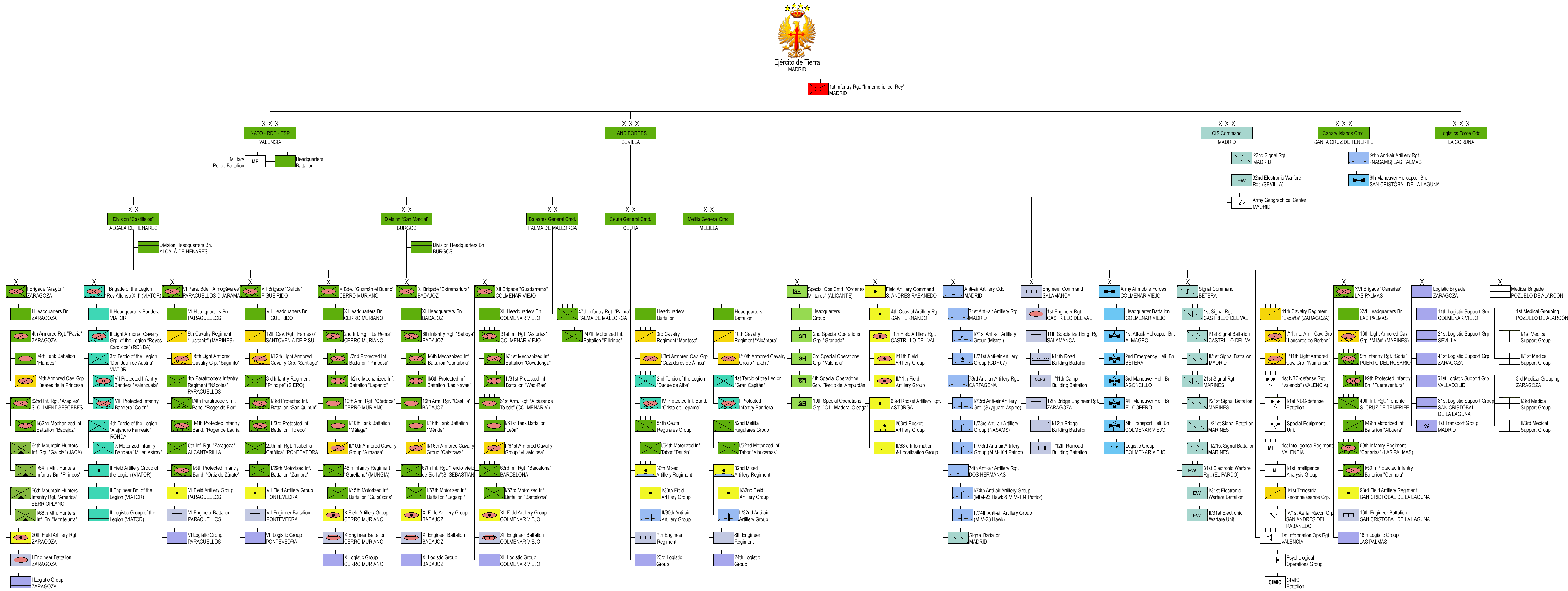 Structure of the Spanish Land Forces - March 2019